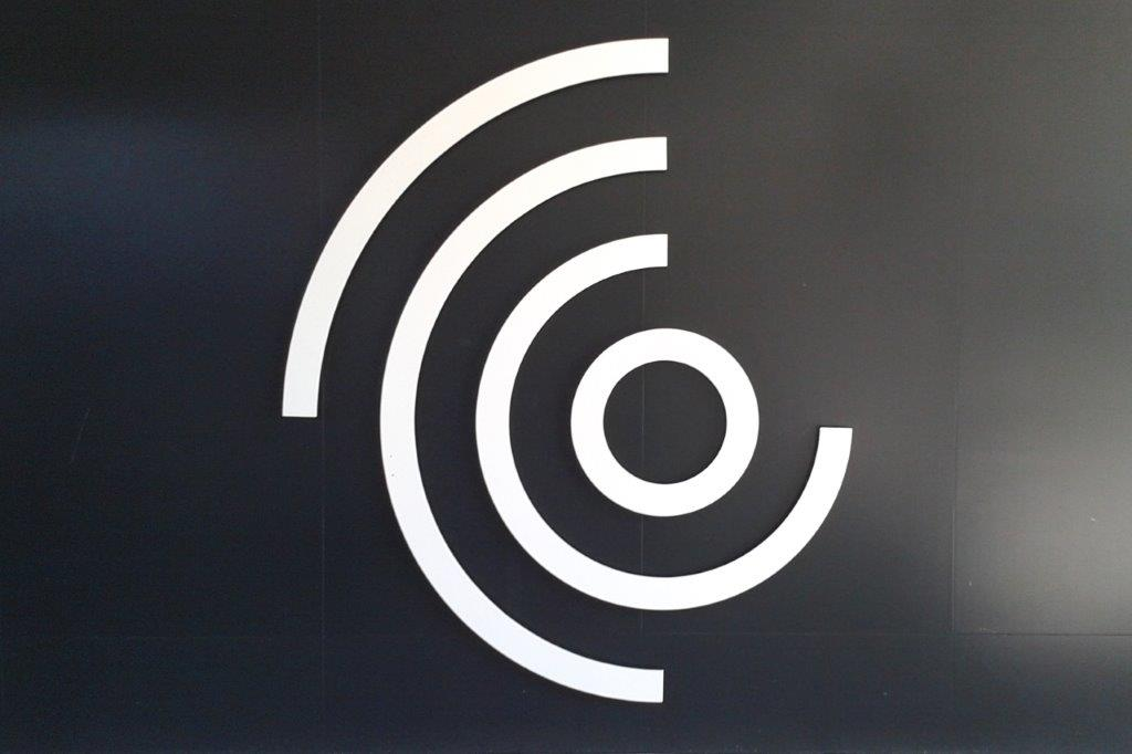 Vignet Ad Dekkers ROC ID College Gouda